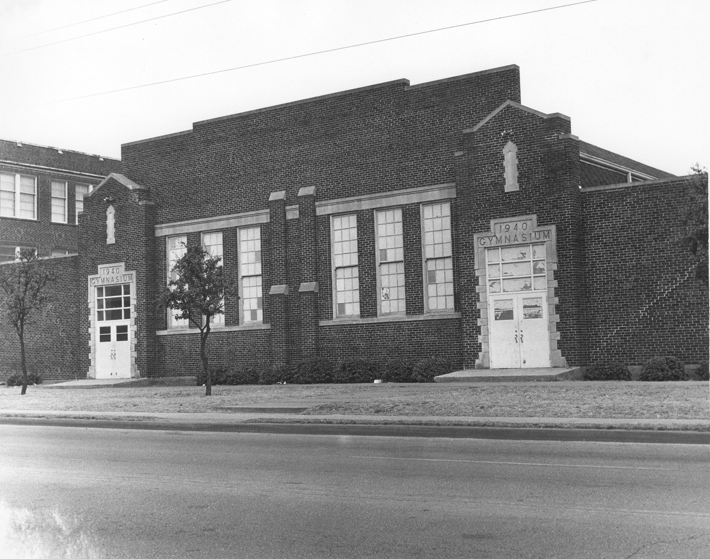 Gymnasium built in 1940 for Arlington High School; Cooper Center purchased by University of Texas at Arlington in 1968 for use as office space for School of Social Work.